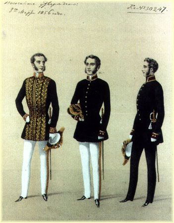 Three types of State Council of the Russian Empire members uniform as of 1856.